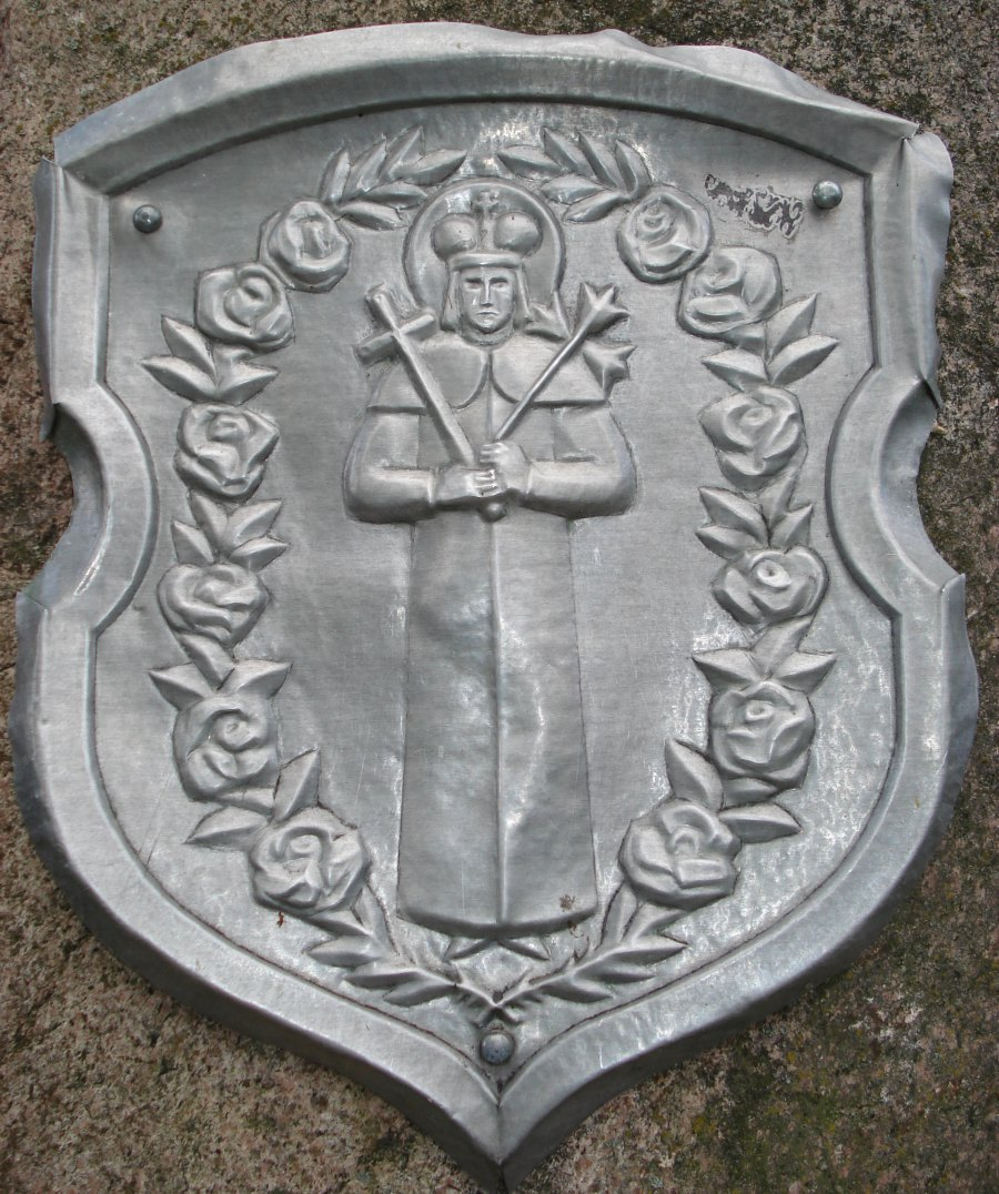 Ruzhany village symbol (Gerb), Ruzhany, Belarus.